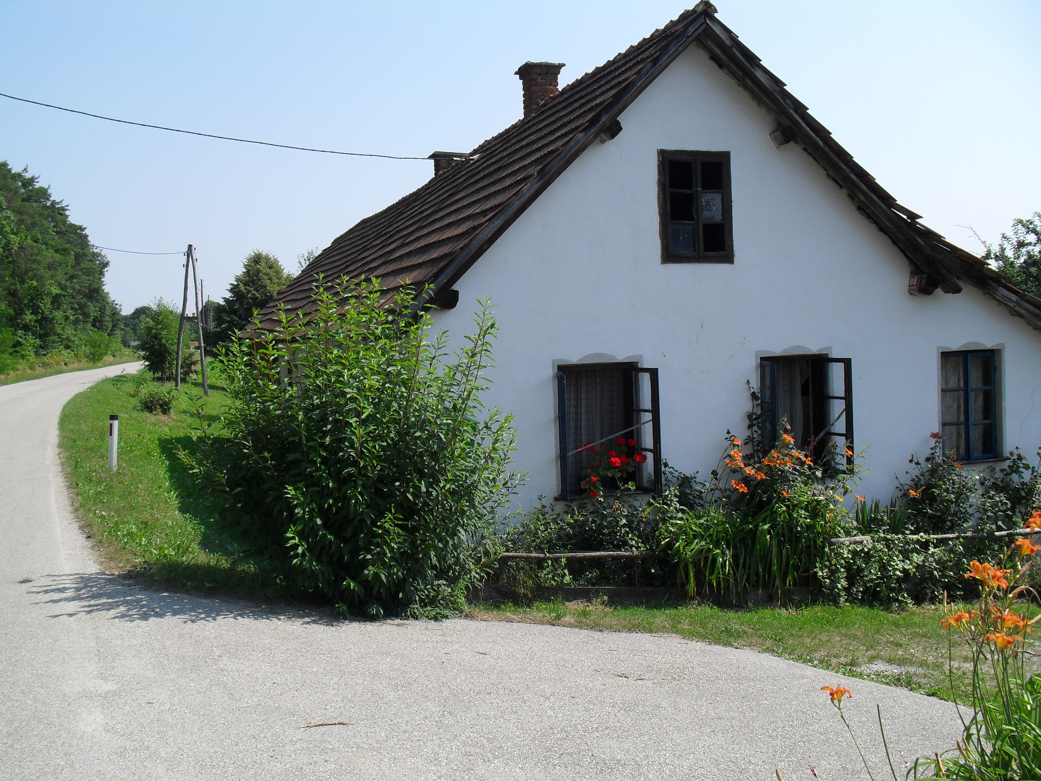 House in Vadarci, Puconci municipality, Prekmurje